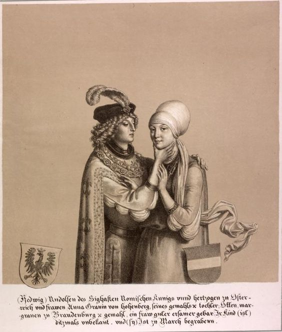 Margrave Otto VI of Brandenburg and his wife Hedwig of Austria